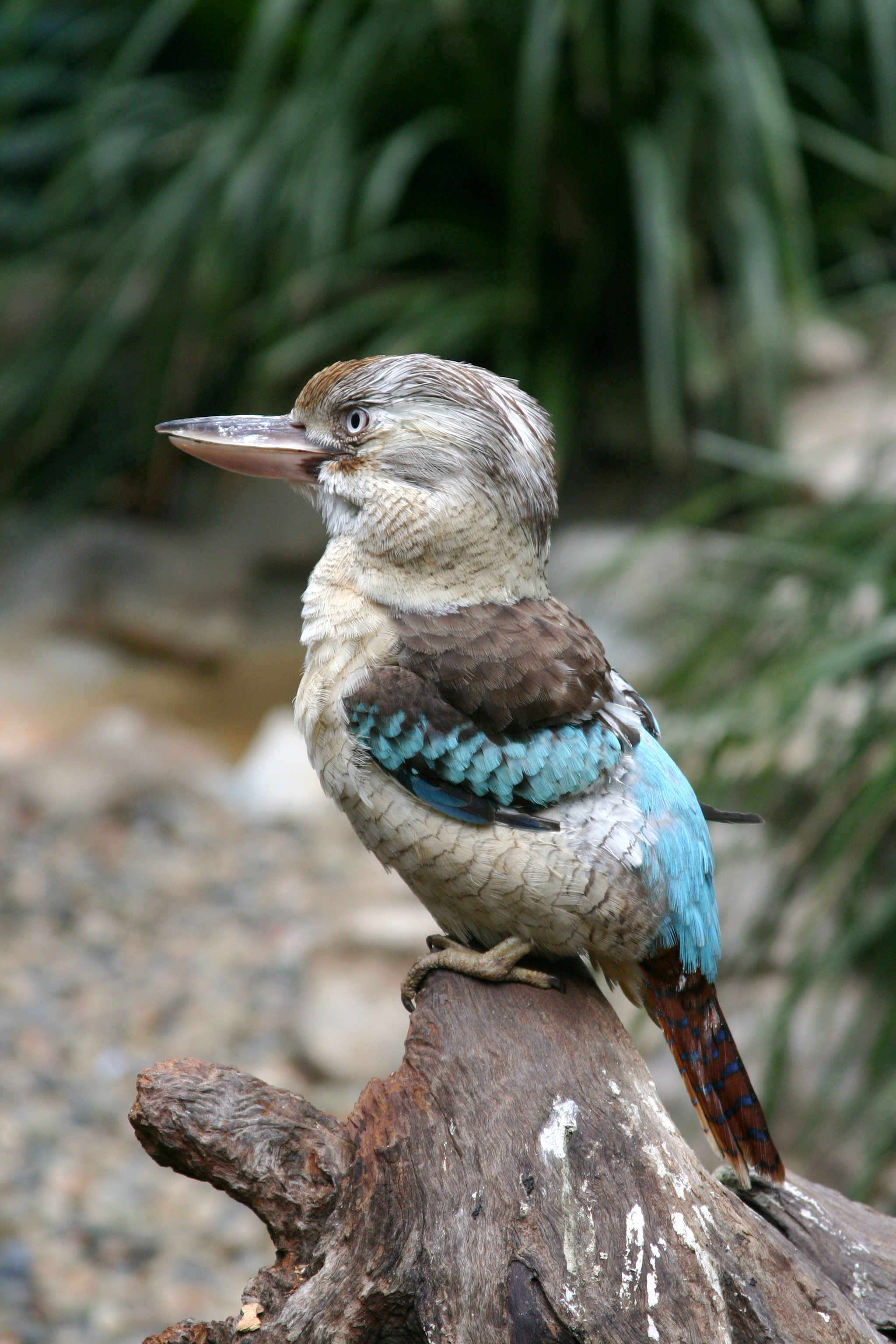 Blue-winged Kookaburra.